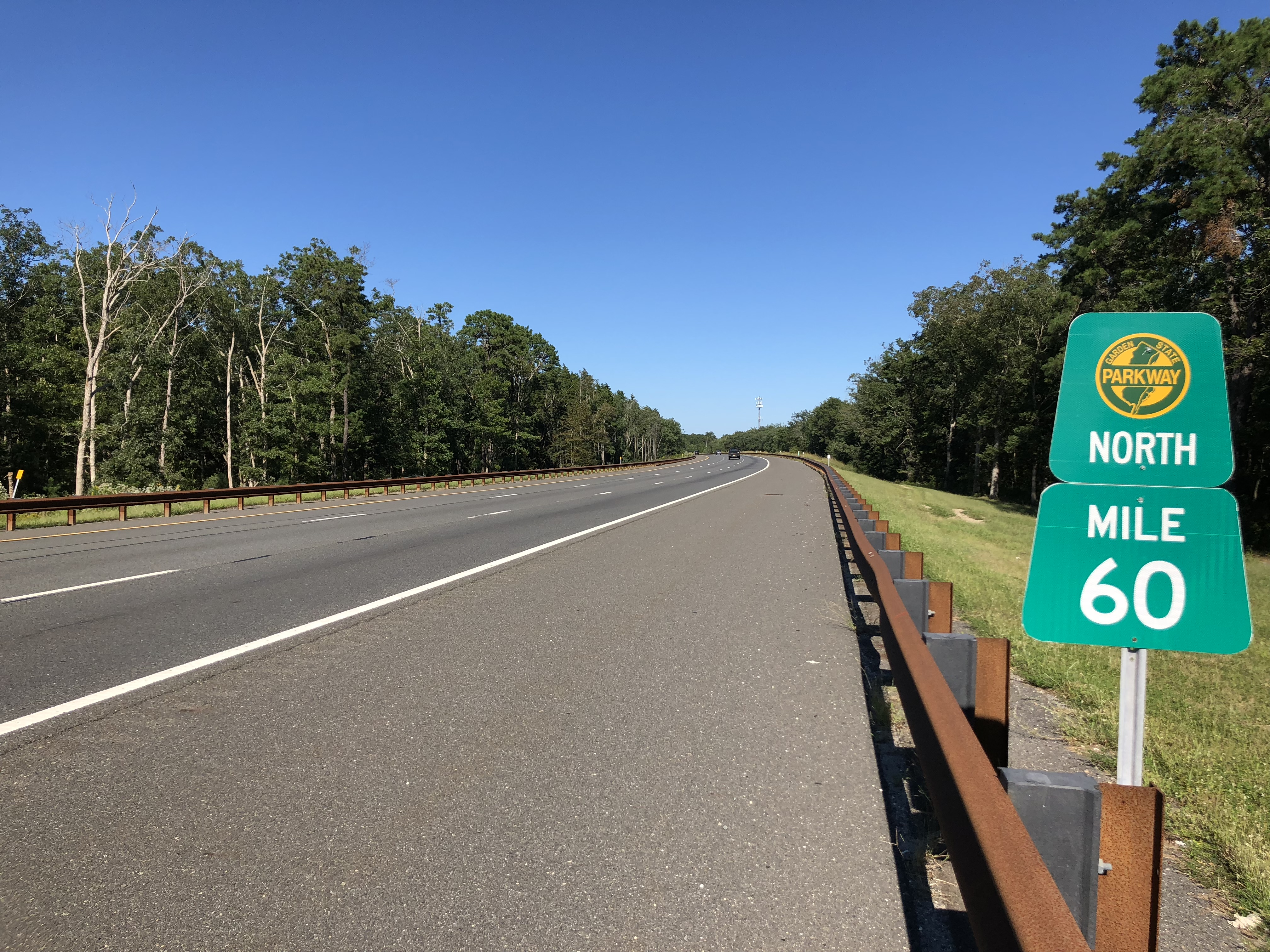 View north along New Jersey State Route 444 (Garden State Parkway) between Exit 58 and Exit 63 in Eagleswood Township, Ocean County, New Jersey